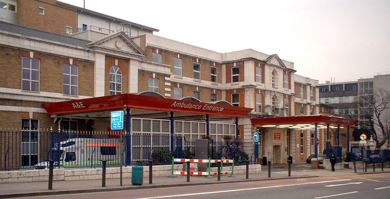 Kings College Hospital - Ambulance Entrance. Camberwell, Southwark, London. Taken by C Ford, Feb 2004.